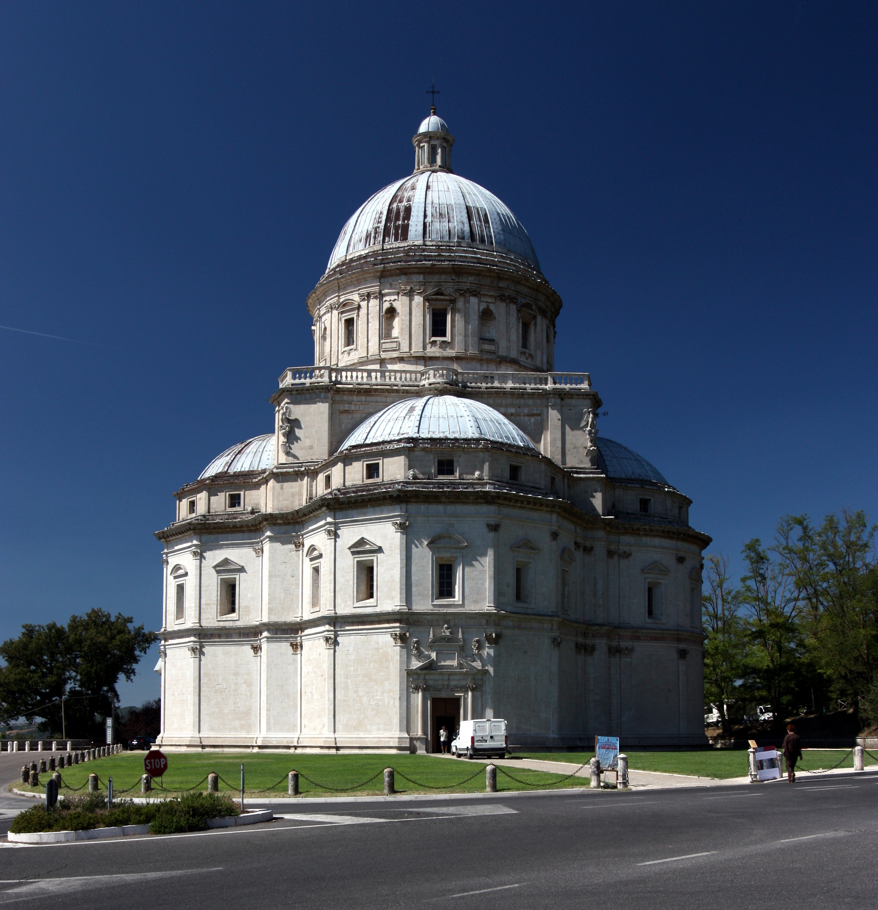 The Donato Bramante's Santa Maria della Consolazione church in Todi, Umbria, Italy